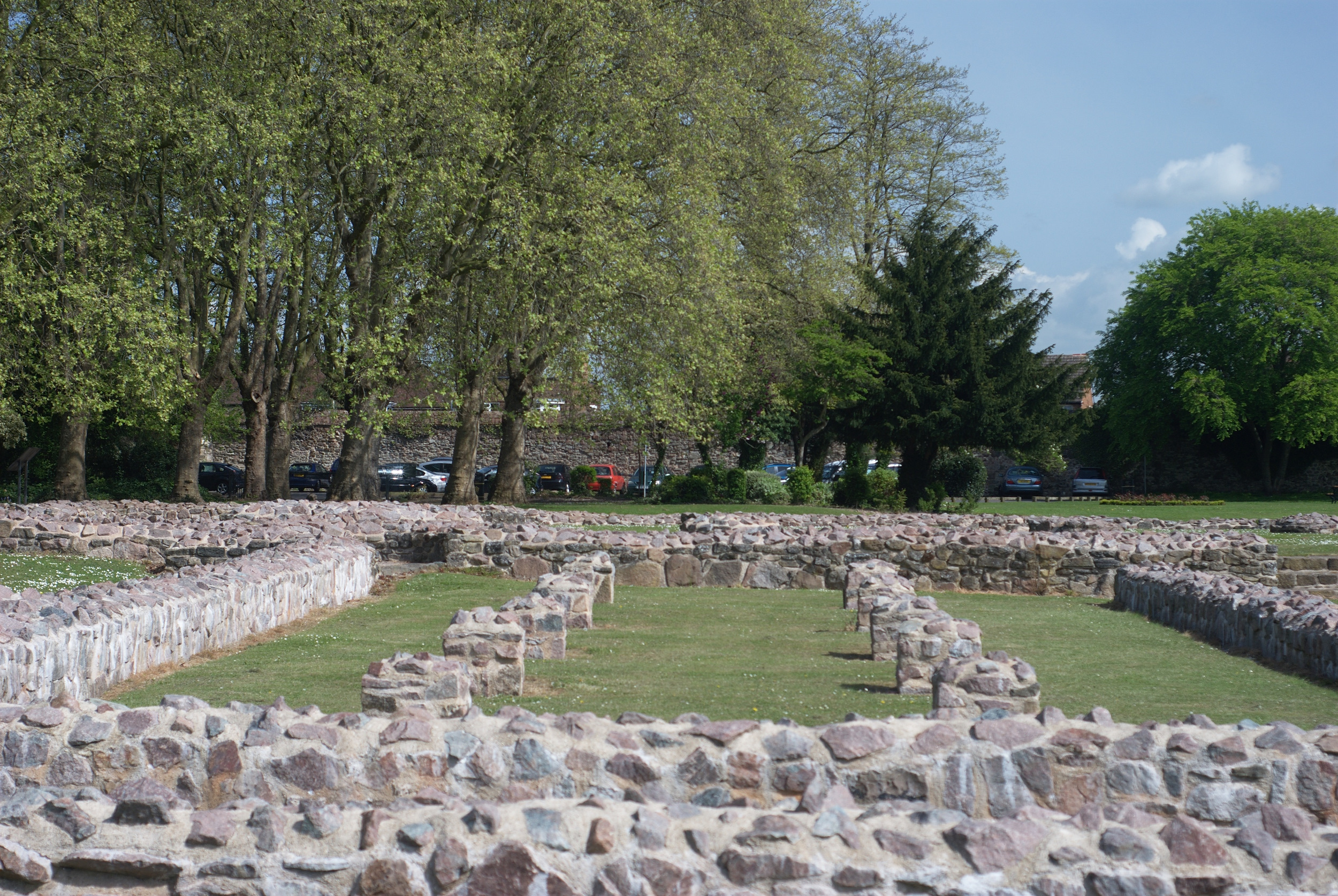 Ruins of Leicester Abbey, Abbey Park, Leicester.